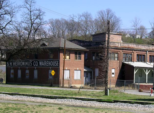 Virginia Can Company-S.H. Heironimus Warehouse listed on the National Register of Historic Places in Roanoke, Virginia, USA